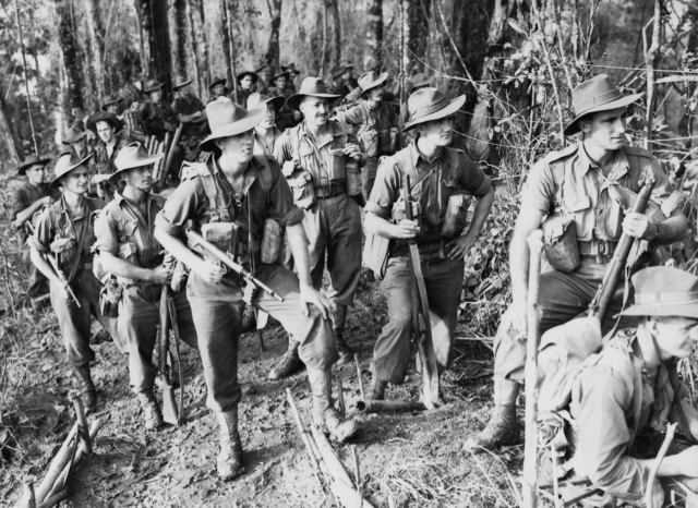 Shaggy Ridge, New Guinea. December 27, 1943. Troops of the 2/16th Australian Infantry Battalion, watch aircraft bombarding The Pimple prior to their attack on Japanese positions. The personnel pictured include: Pte J. B. Knight, Pte O.J. Mortimer, Pte W. Rees, Pte W. E. Brandis, Pte E. J. Gooding, Capt. V. E. C. Anderson, Lt J. Lee, Sgt E. S. Holland.